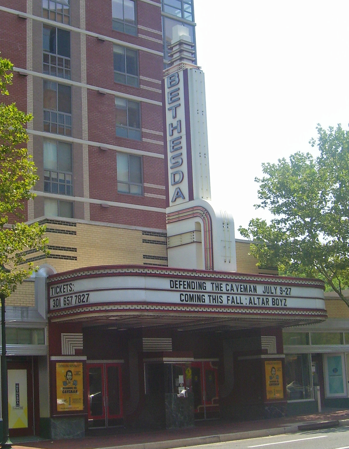 Bethesda Theatre, on Wisconsin Avenue (MD 355) in downtown Bethesda, MD, USA